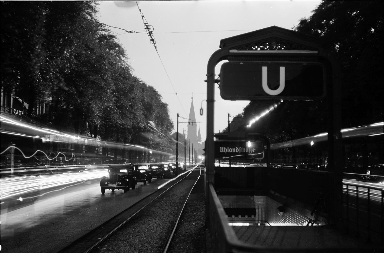 The U-Bahn Uhlandstraße station entrance along Kurfürstendamm in Berlin-Charlottenburg